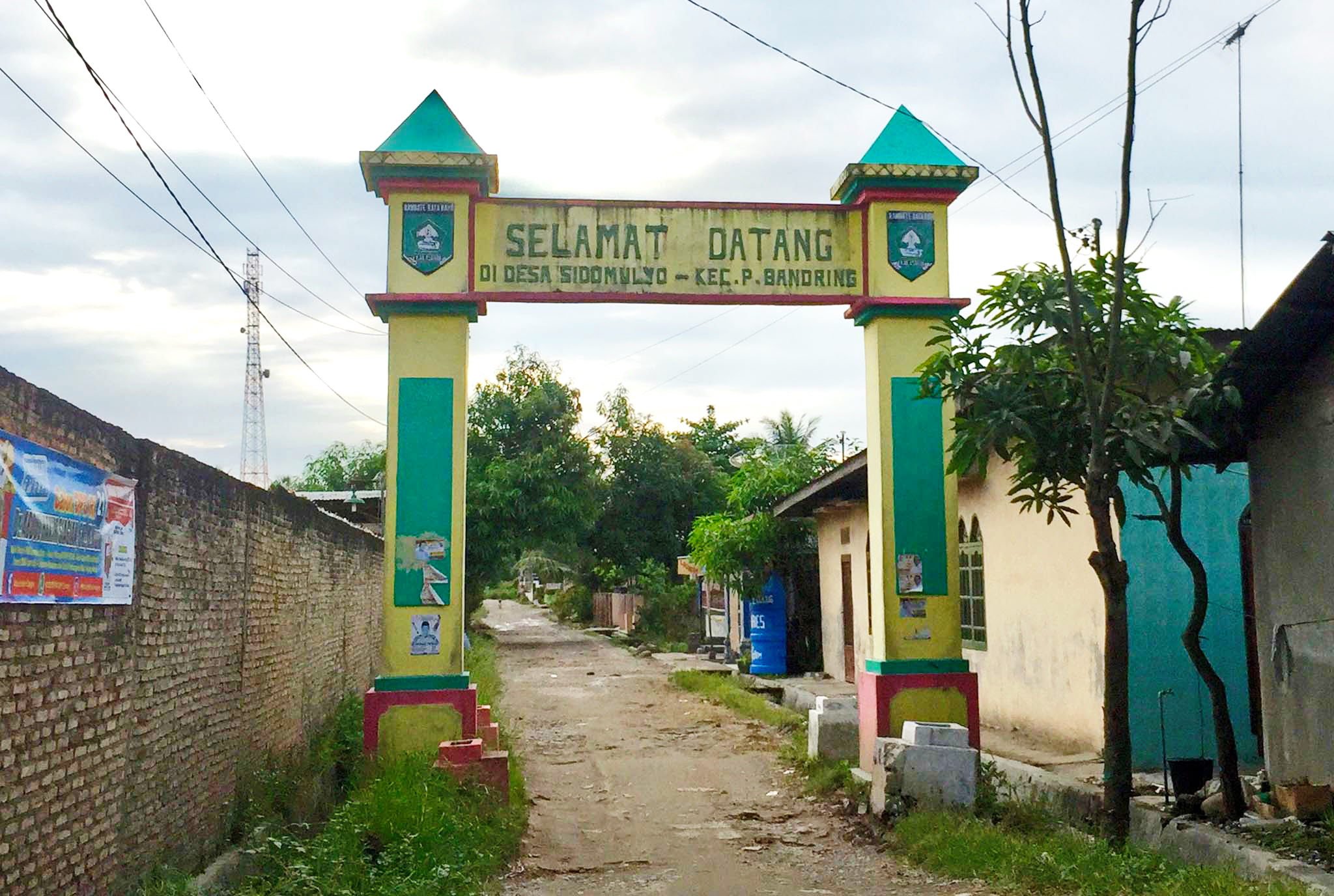 welcome gate to Sidomulyo, Pulo Bandring, Asahan